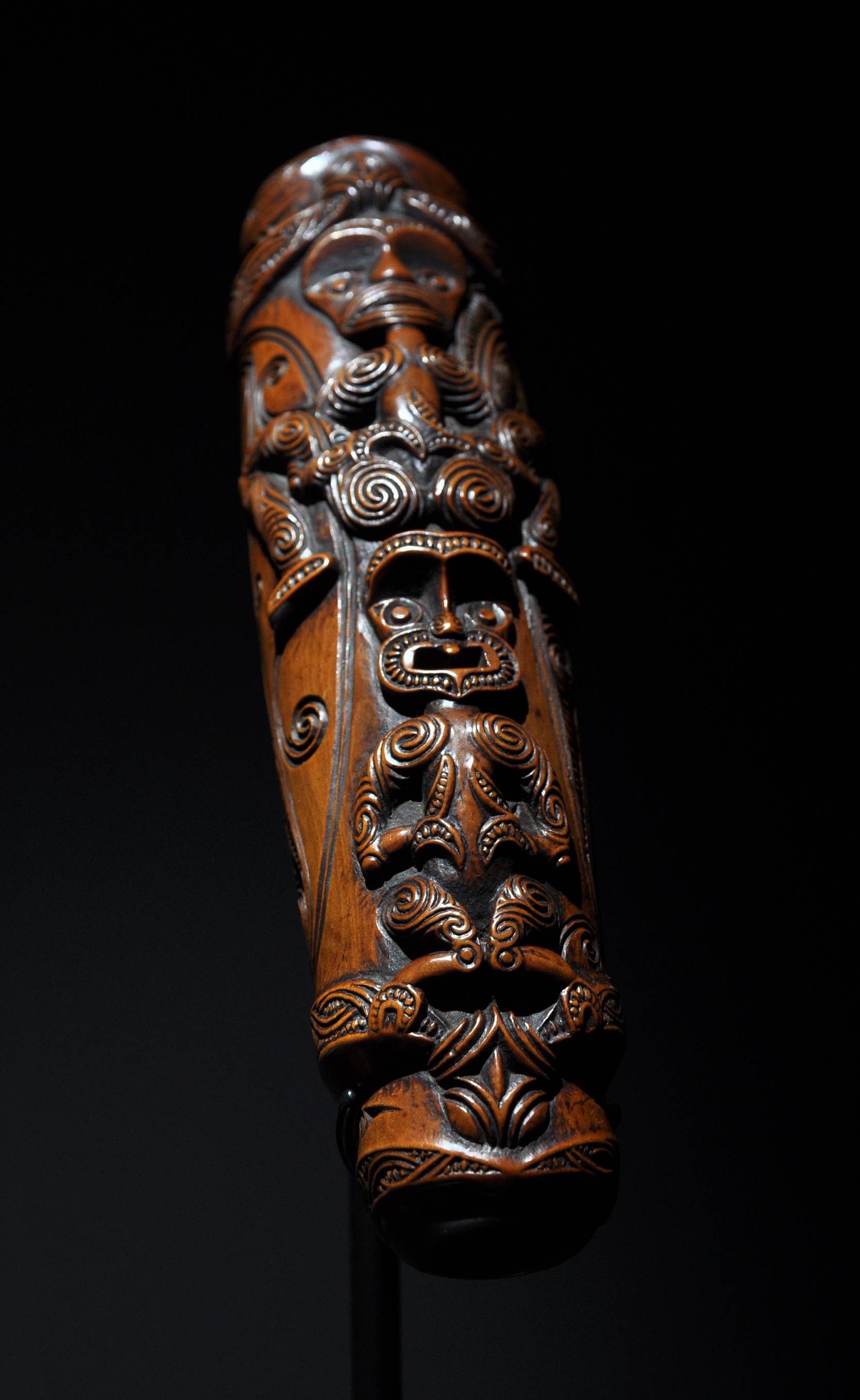 flute (koauau), wood, Maori culture, 1800-1850. In the exhibition "Maori, their treasures have got a soul", in the Musée des Arts Premiers in Paris, from the end of 2011 to the begining of 2012.